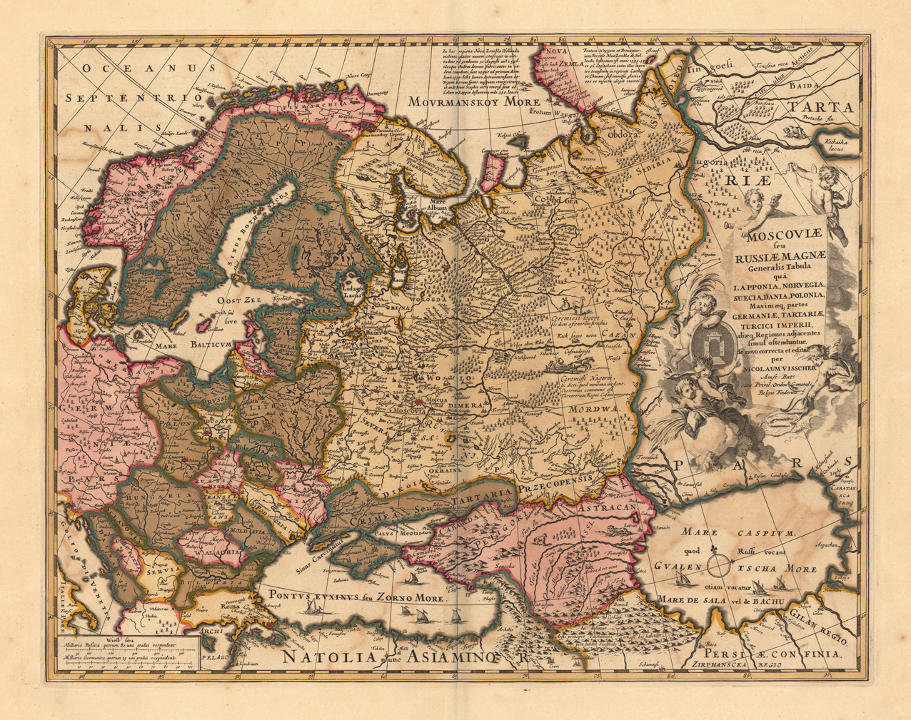 Map of Russia by Nicolaas Visscher II (1649-1702)